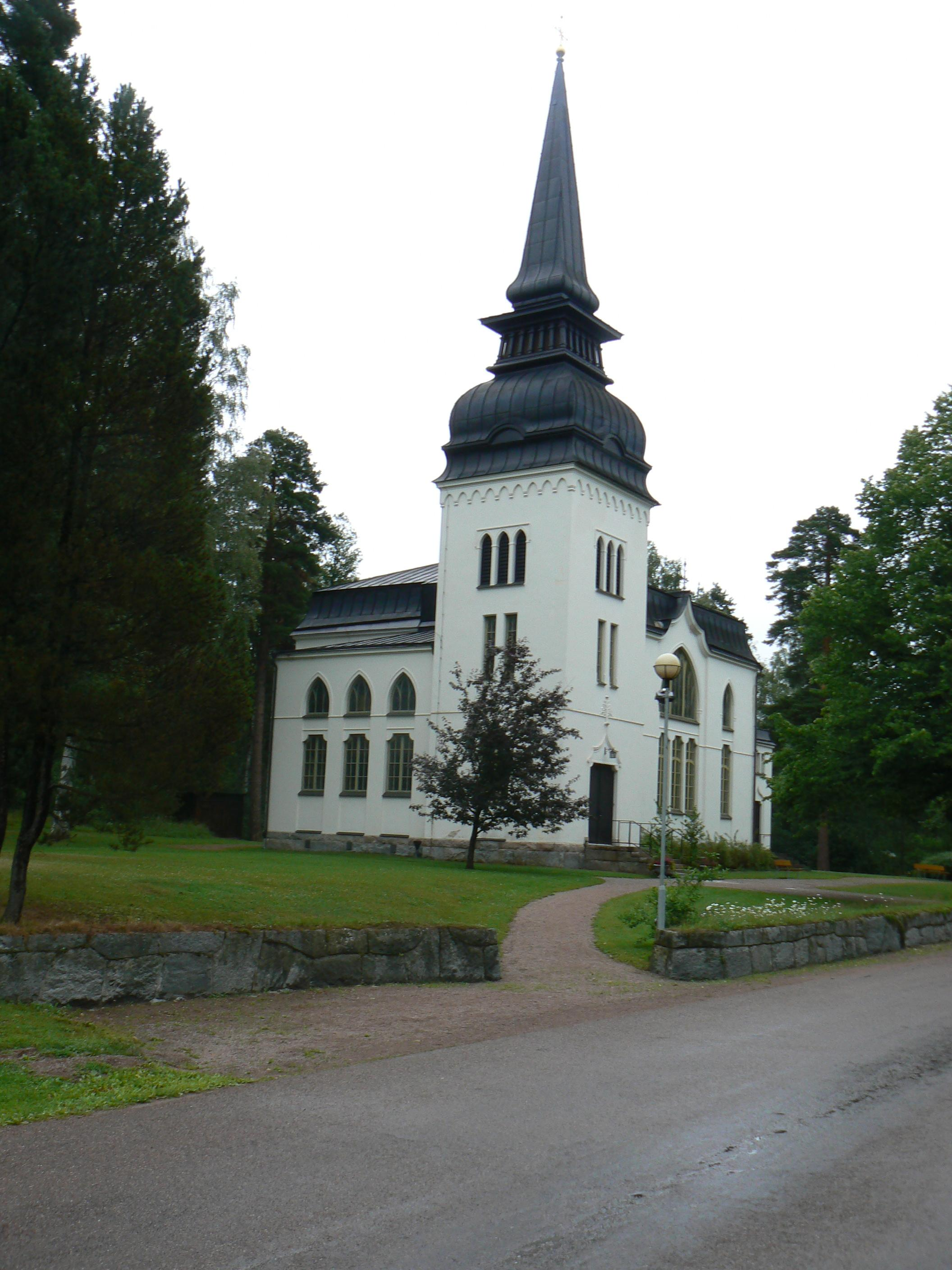 Grycksbo church in Sweden (Church of Sweden). Arkitekt David Jansson